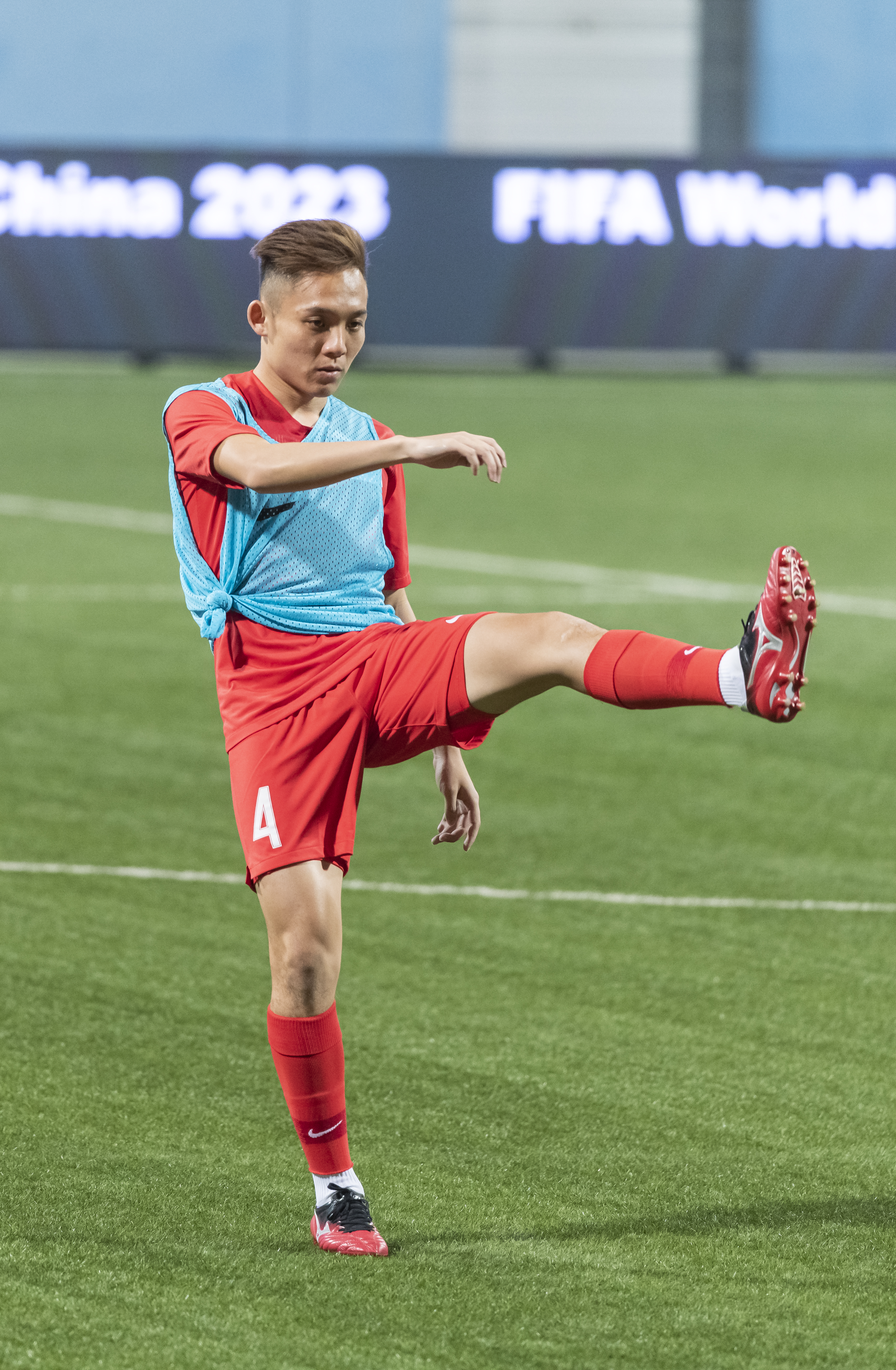 Darren Teh Singapore national football team Jalan Besar palestine 2019